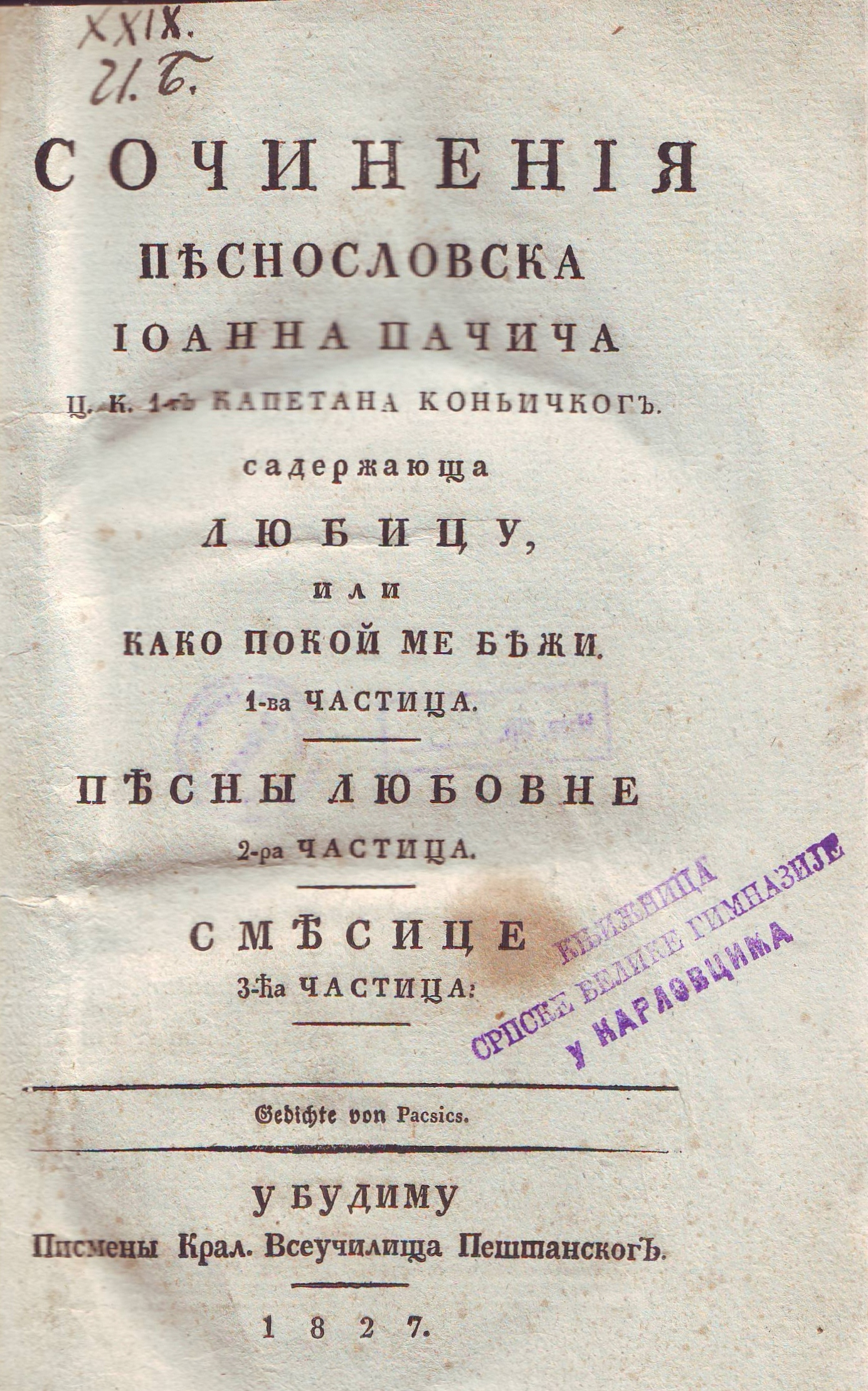 Cover of poetry collection Sočinenija pesnoslovska (1827) by Jovan Pačić. Srpski (latinica): Naslovna strana zbirke pesama Sočinenija pesnoslovska (1827) Jovana Pačića.